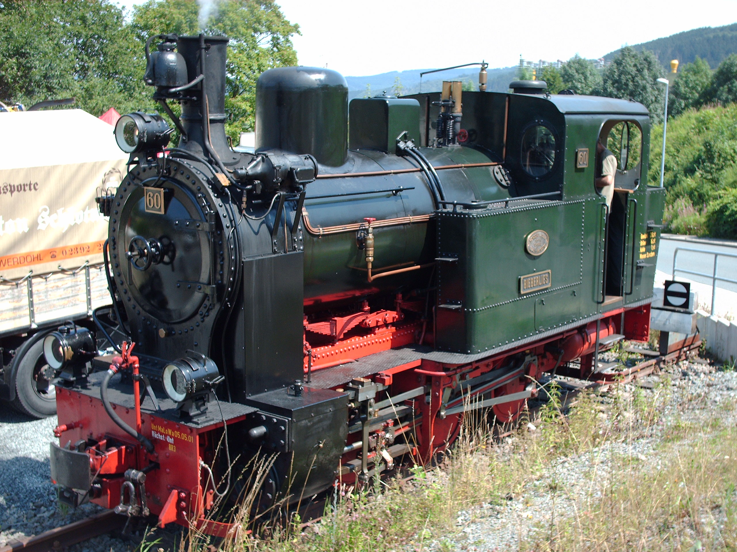 Steam locomotive № 60 Bieberlies, Herscheid, Germany check usage